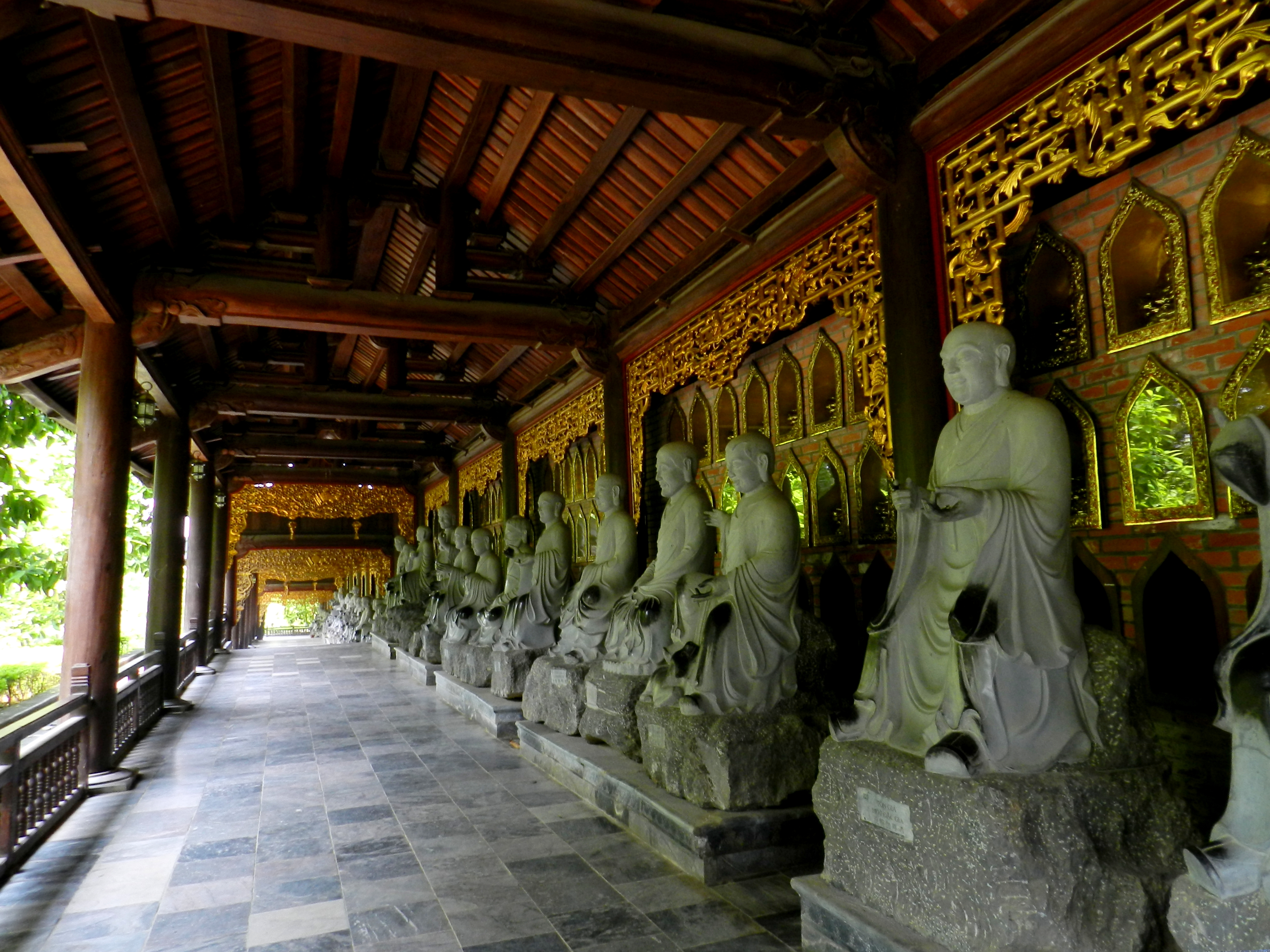 Long corridor of 500 Arhat statues in different poses. Bai Dinh Pagoda Vietnam